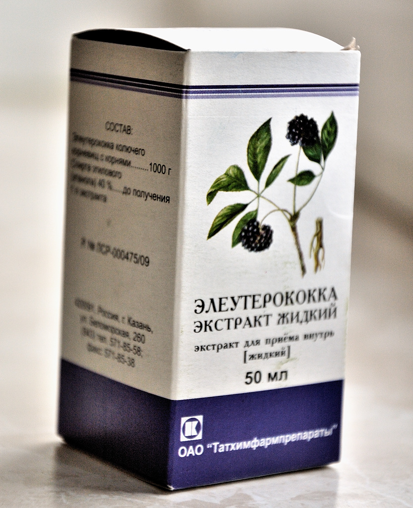 Eleutherococcus senticosus fluid extract